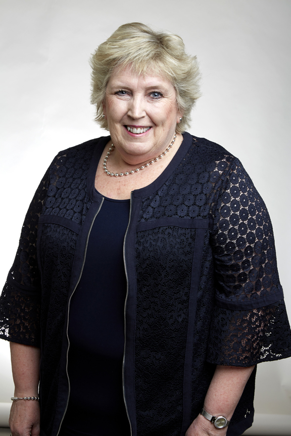 Margaret Anne Brimble is a New Zealand chemist. Her research has included investigations of shellfish toxins and means to treat brain injuries Attribution: The Royal Society